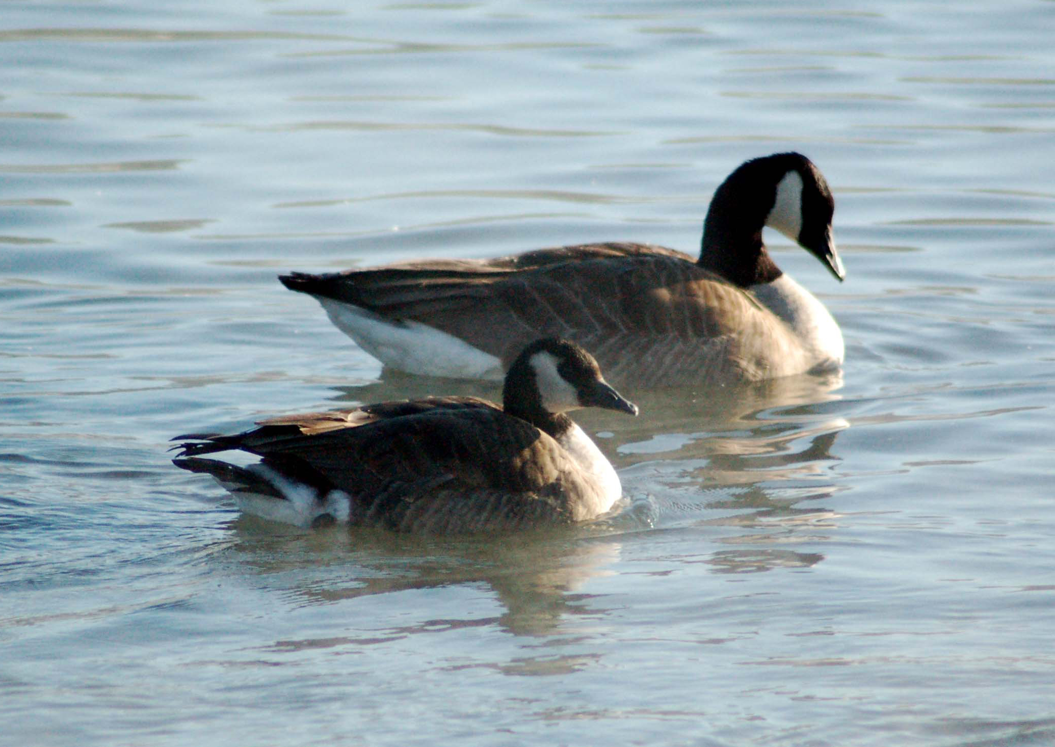 Branta hutchinsii (front) and Branta canadensis (behind). Silver Lake, Rochester, Minnesota